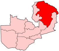 Map of Zambia showing Northern province.